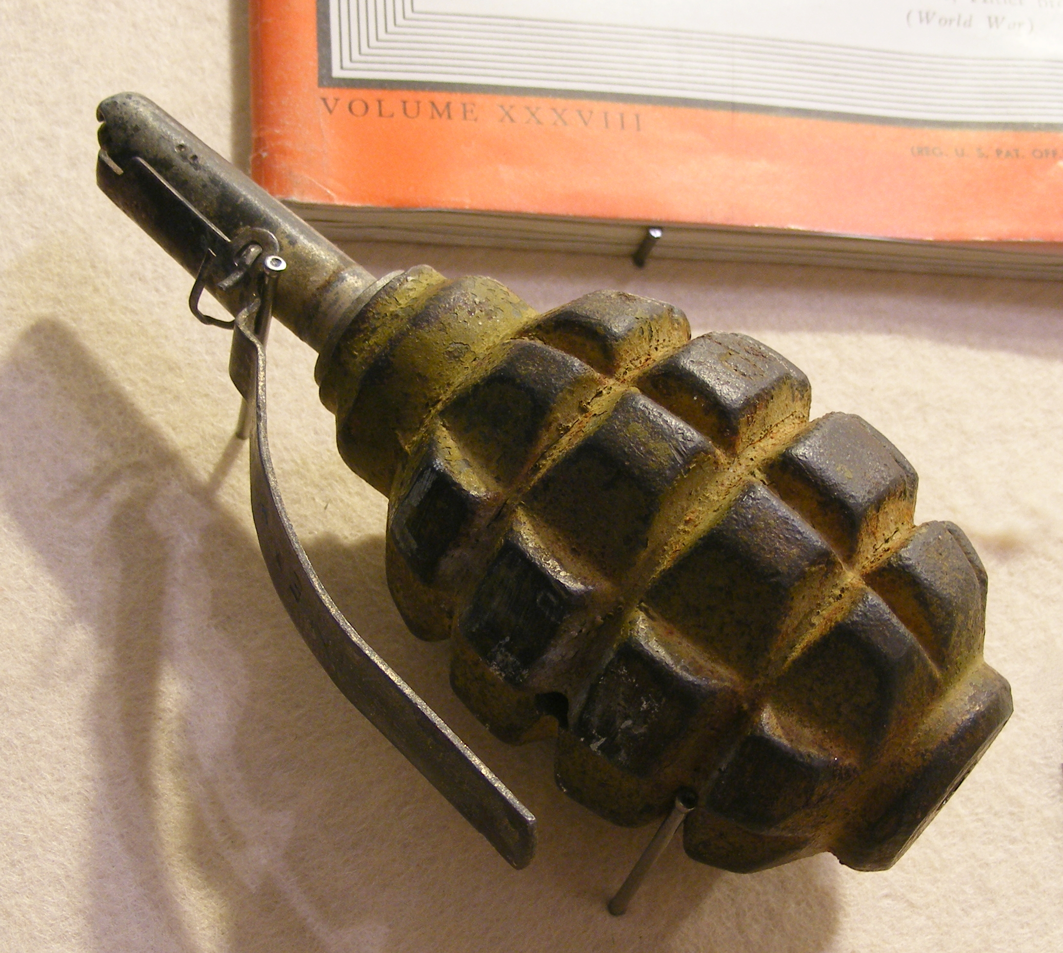 Soviet F1 hand grenade displayed in Royal Canadian Regiment Museum in London, Ontario. Photo taken on April 27, 2008. Source: Photo by me, User:Balcer.